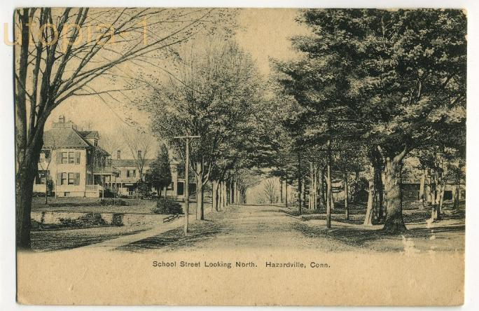 Postcard: School Street, looking north, Hazardville part of Enfield, Connecticut, 1910 postmark. Store Web page states: "Date(s): 1910 / Stamped: has fallen off / Cancelled: yes" Caption on front of postcard states: "School Street Looking North. Hazardville, Conn."